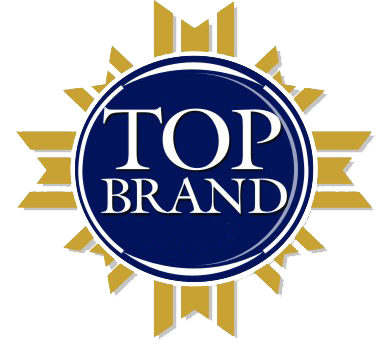 Logo top brand